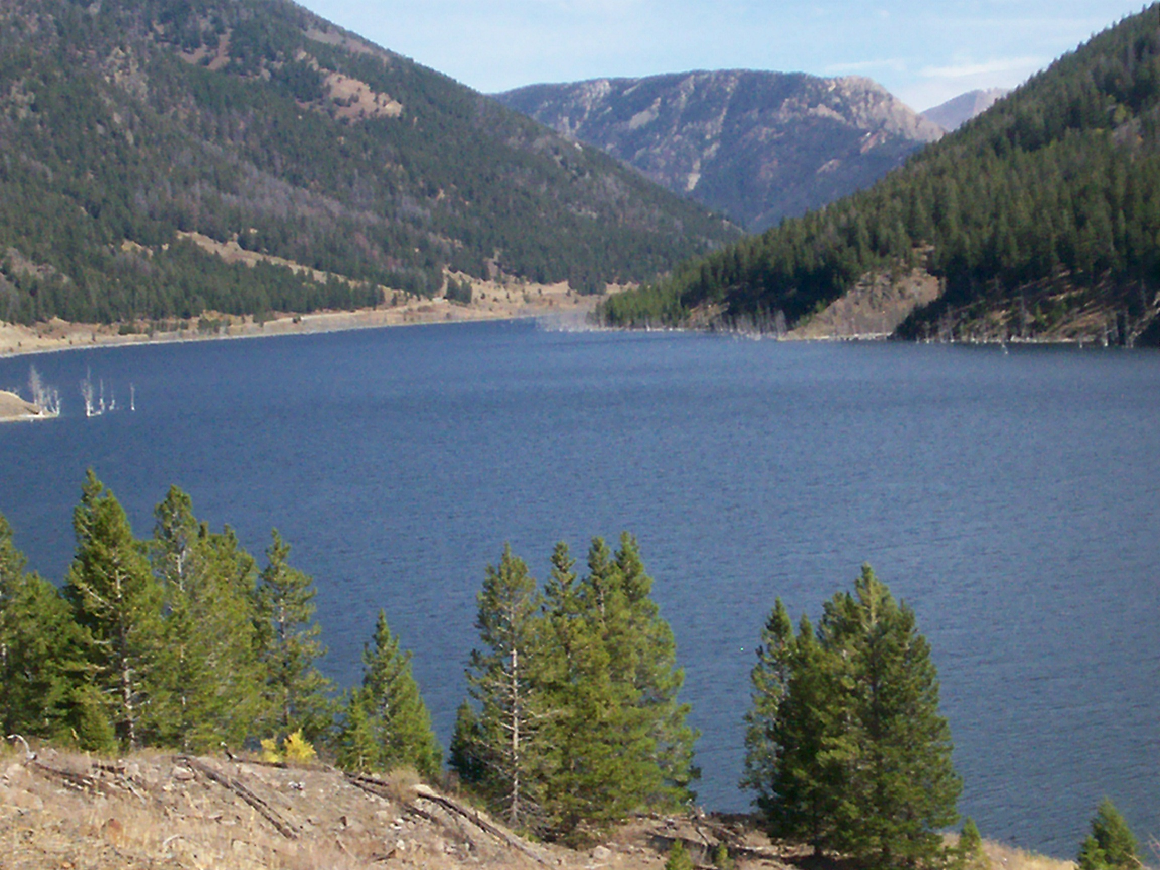 Quake Lake in Montana, USA by David Jolley 2005.